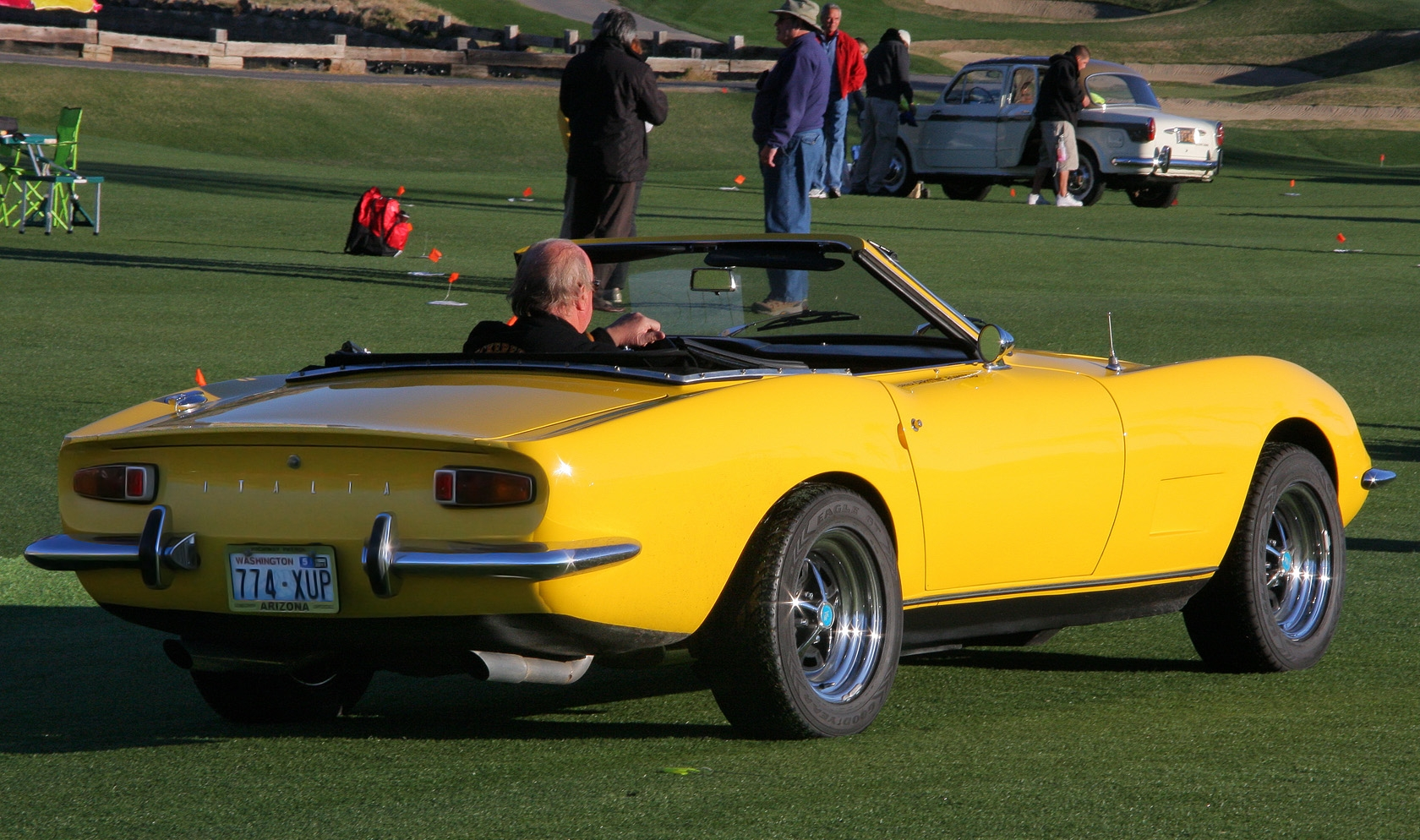 1967 Italia by Intermeccanica - rvr